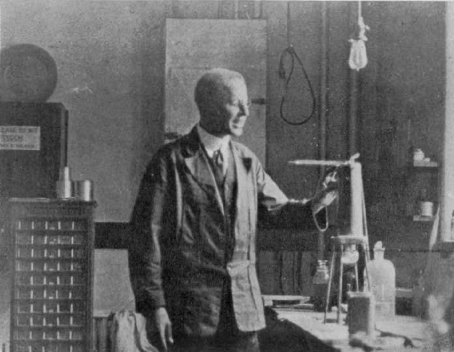 Boltwood in his laboratory in Slone Physics Laboratory, Yale 1917